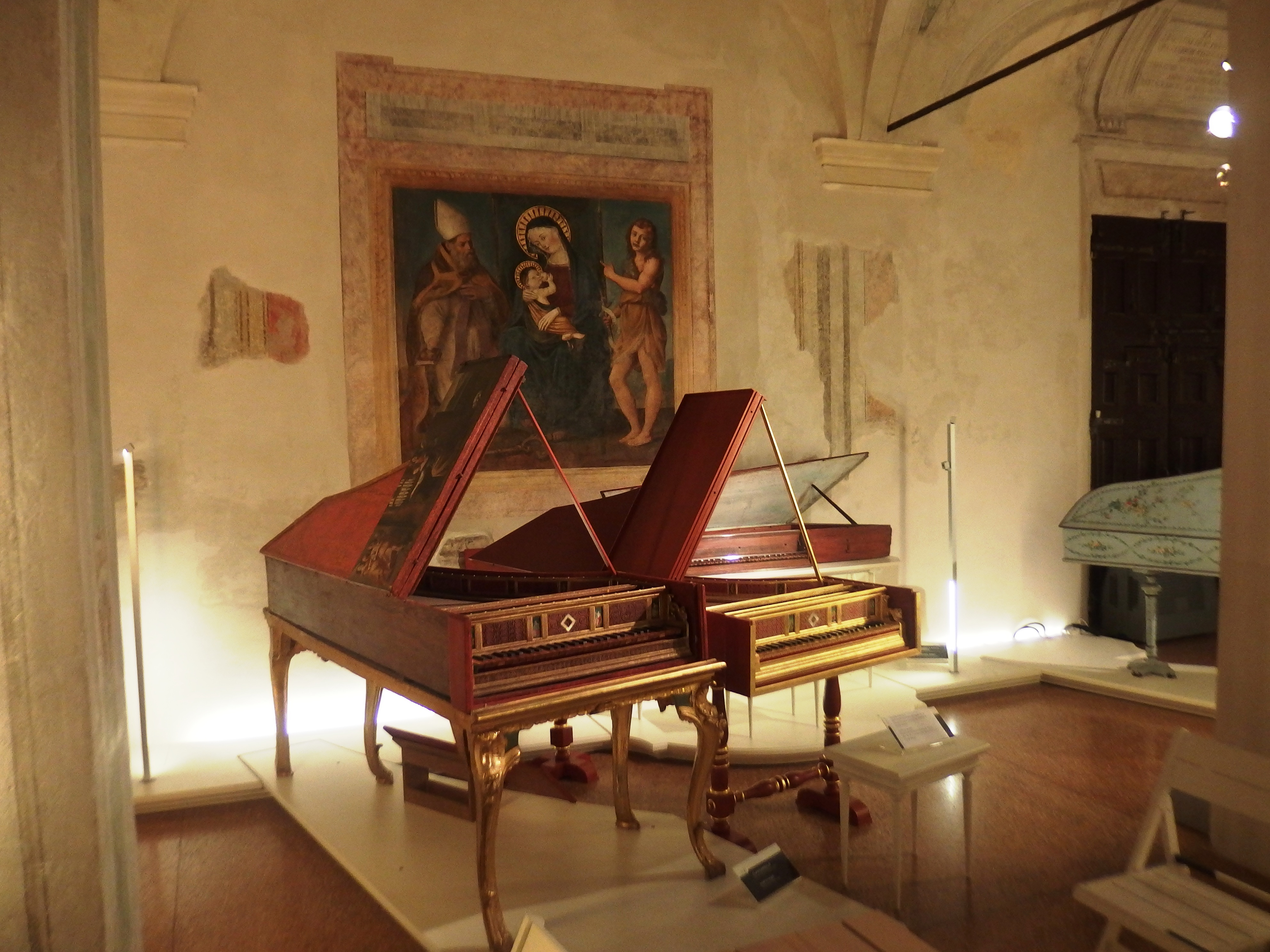 Bologna, Italy.